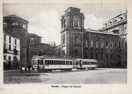 Venaria, piazza Castello